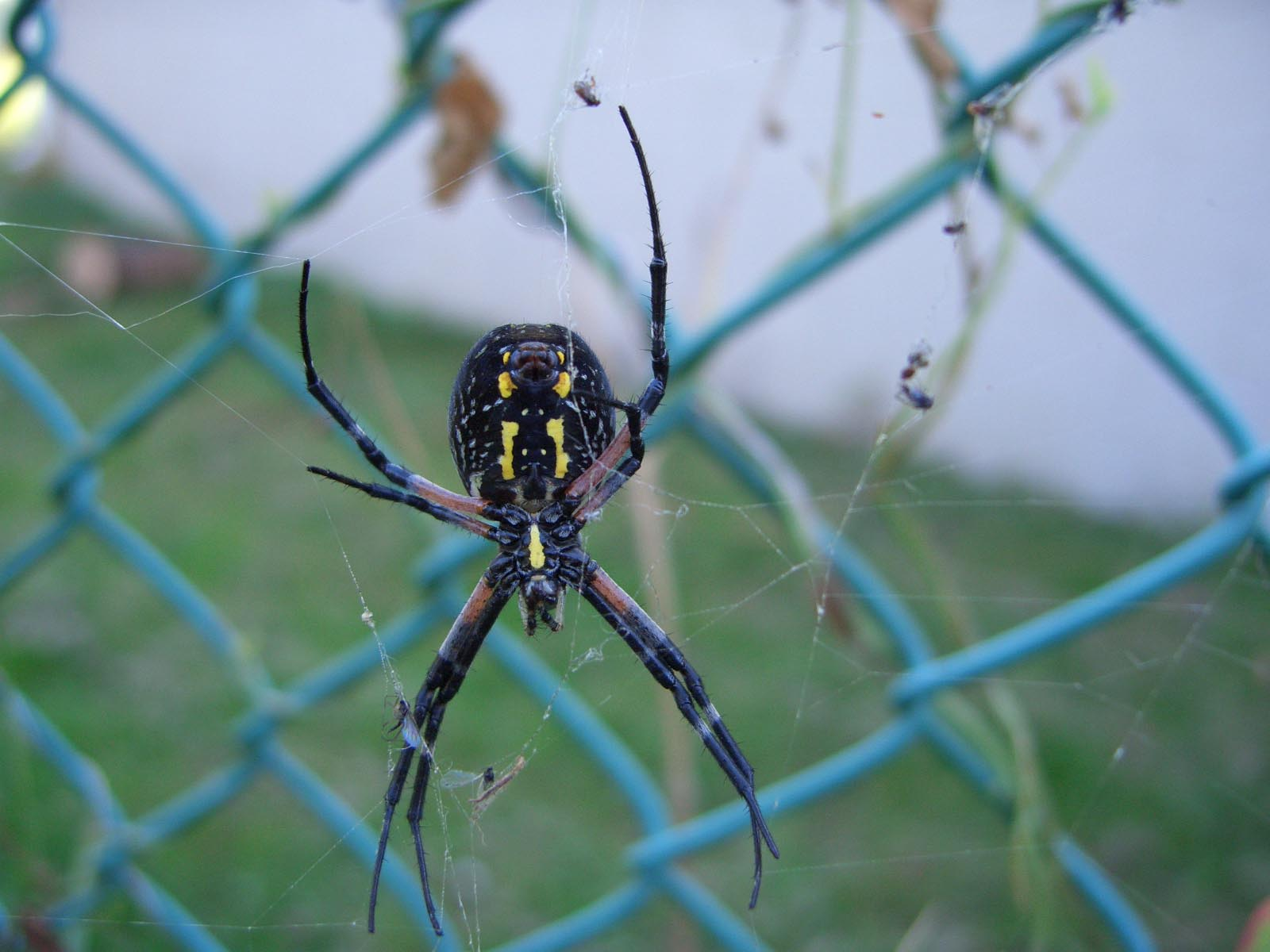 Bottom view of yellow European Garden Spider